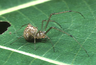 female Tylorida striata from Okinawa.